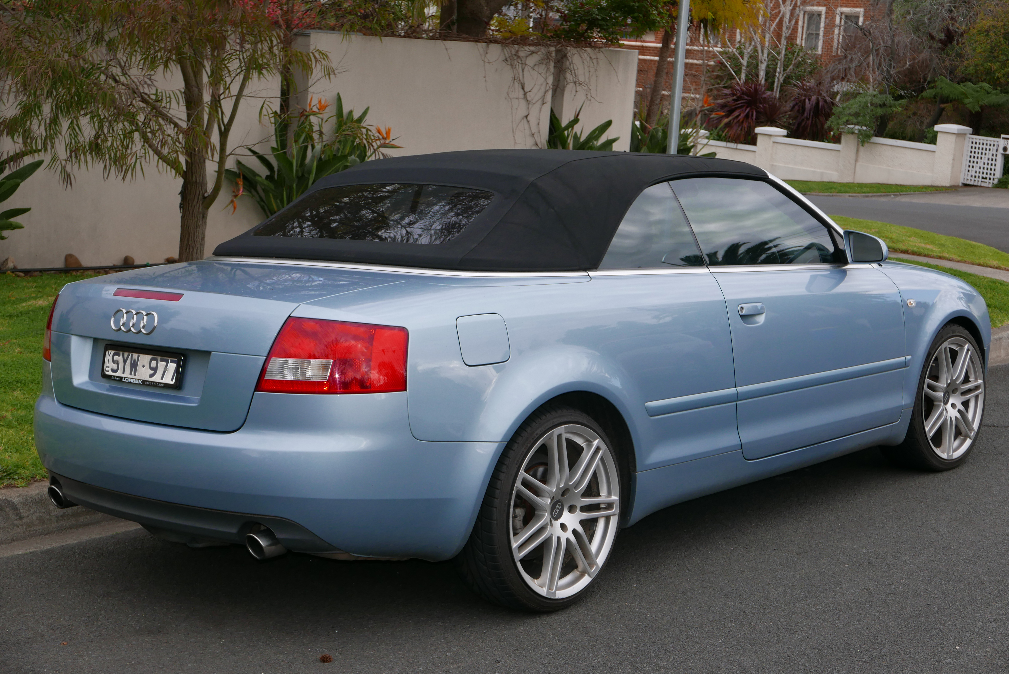 2004 Audi A4 (8H) 1.8 T convertible. The wheels are from the 2006–2008 Audi RS 4 (8E) quattro. Photographed in Kew, Victoria, Australia. Vehicle registration enquiry results Jurisdiction Victoria Registration SYW977 Chassis code WAUZZZ8H54K026225 Engine code BFB068280 Compliance date 2004-06 Year of manufacture 2004